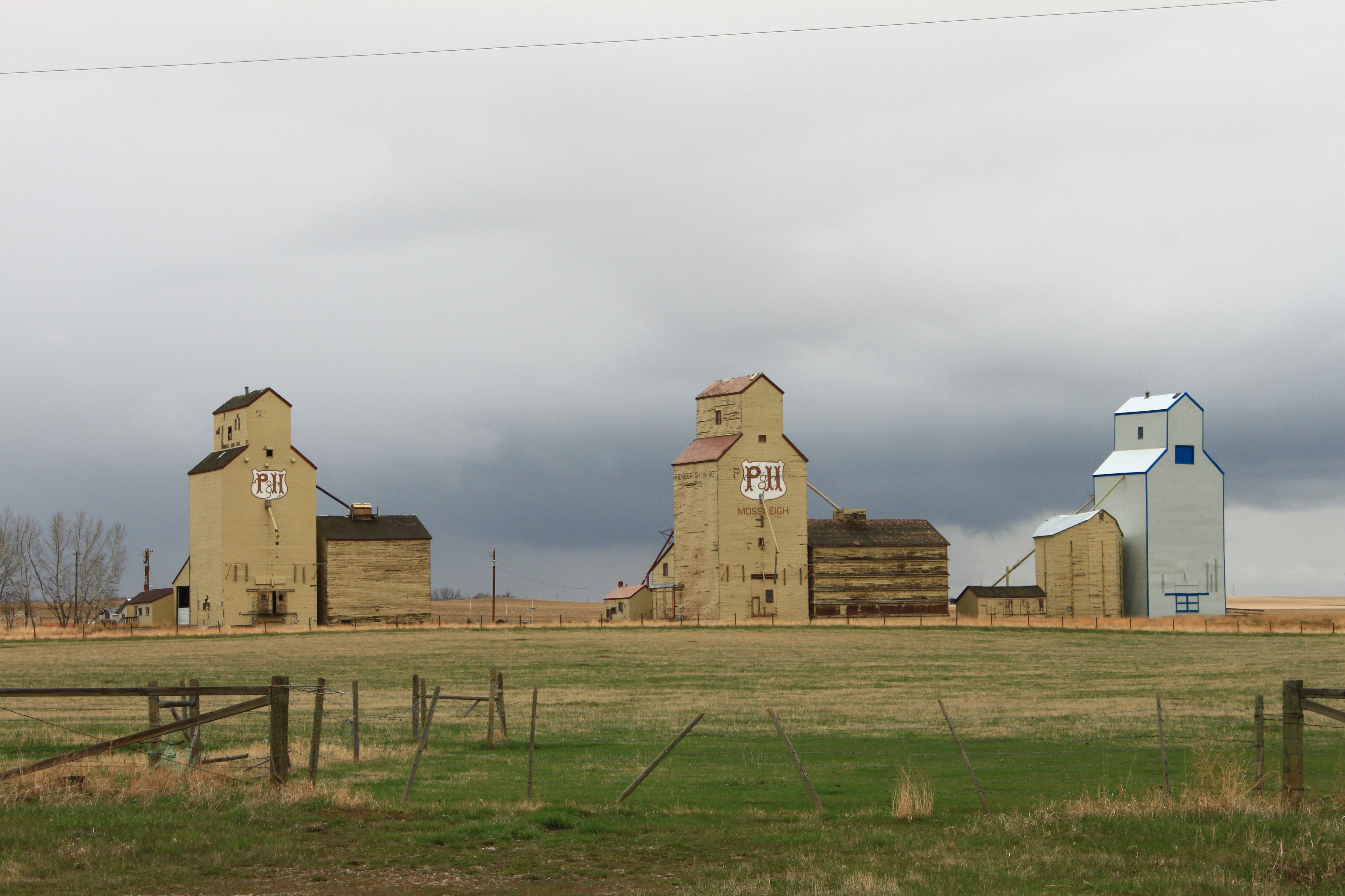 The remaining grain elevators along the abandoned Canadian Pacific Railway tracks in Mossleigh, Alberta.